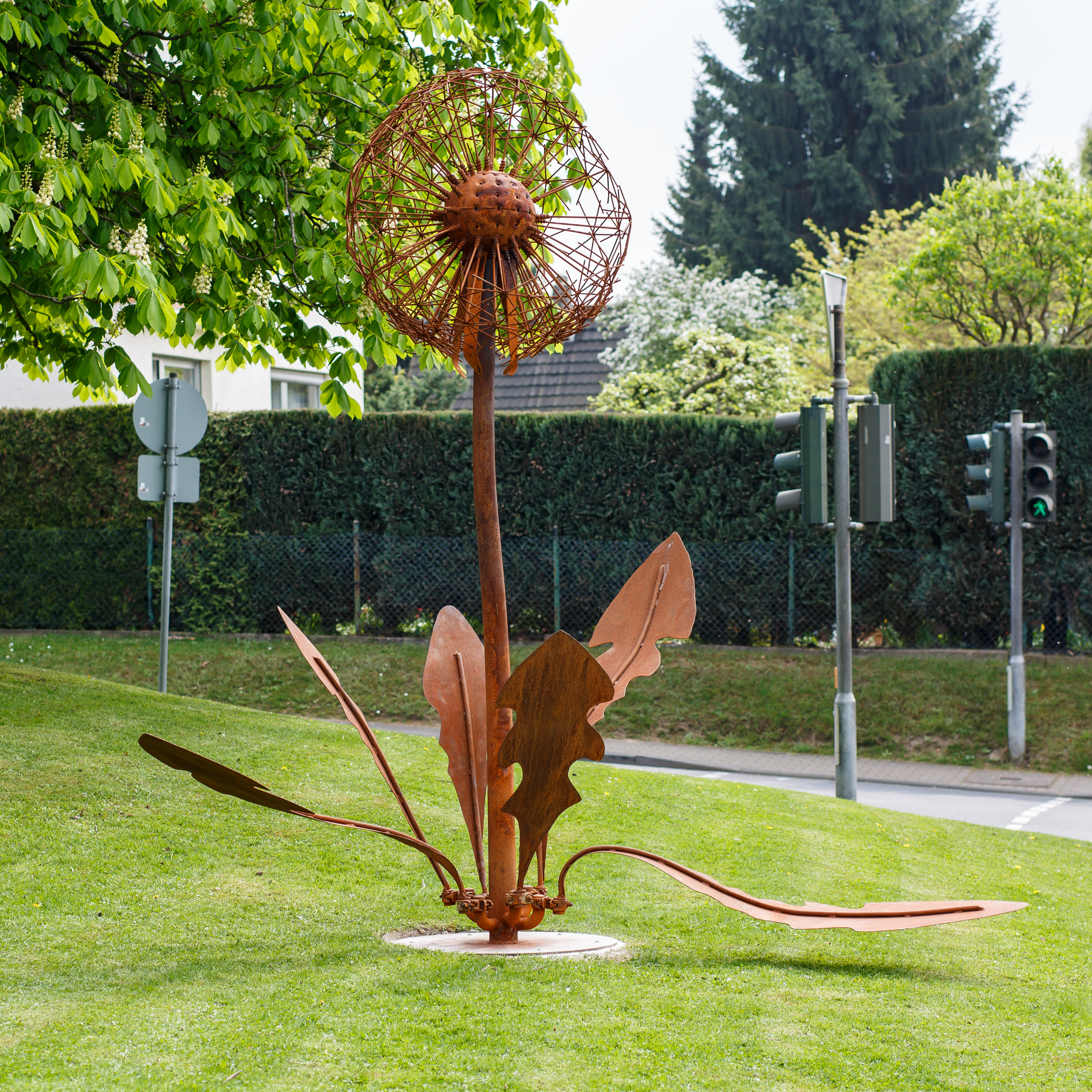 Forsbach, Germany: "Pusteblume" a sculpture of the artist Robin Kurka, 2013. Installation in front of the parish hall of the protestant church.